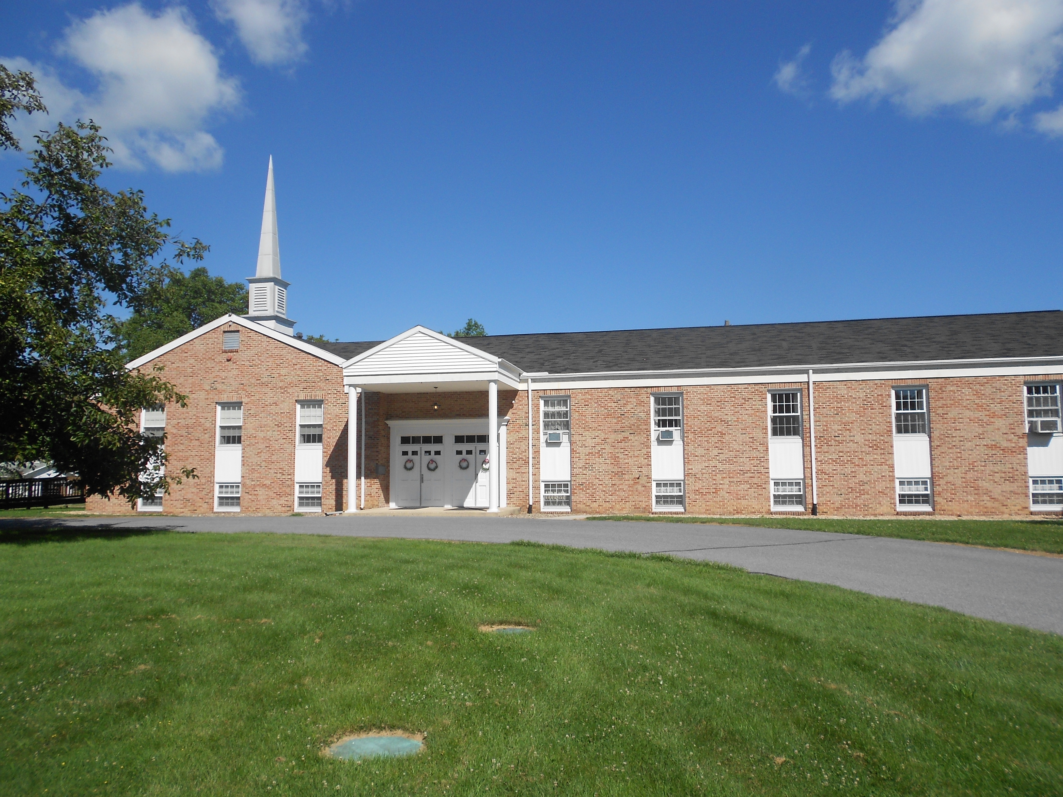 Trinity United Methodist Church, near Walnut Bottom, South Newton Township, Cumberland County, Pennsylvania